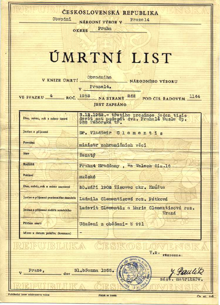 Vladimir Clementis death certificate.